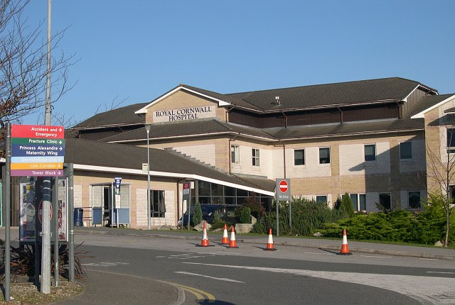 The Royal Cornwall Hospital, Treliske, Truro. This is a large regional hospital serving most of Cornwall. The photograph shows just one of the hospital buildings.